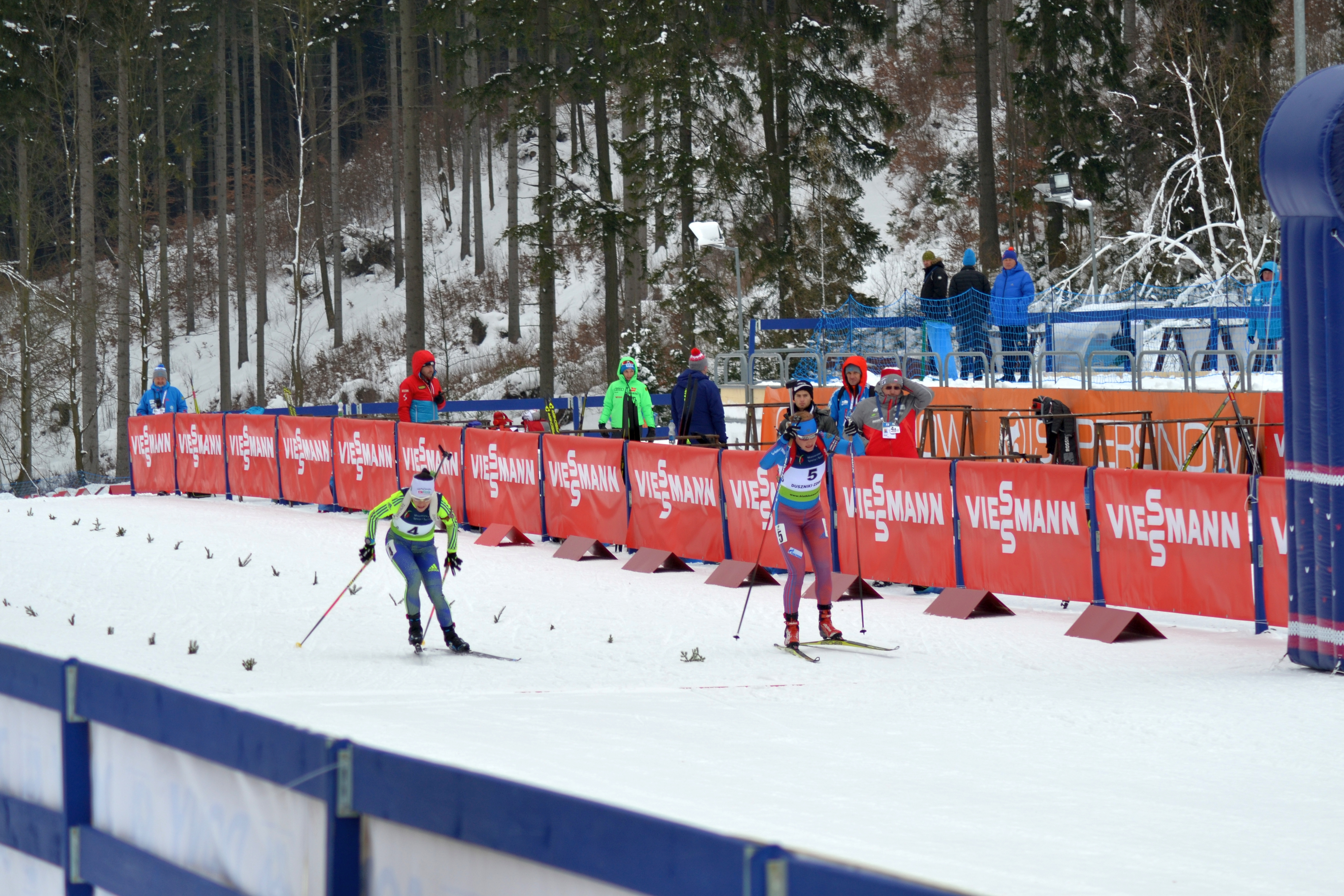 Open European Championships Biathlon 2017, Individual Women's race: on the left Emőke Szőcs, on the right Anna Nikulina.